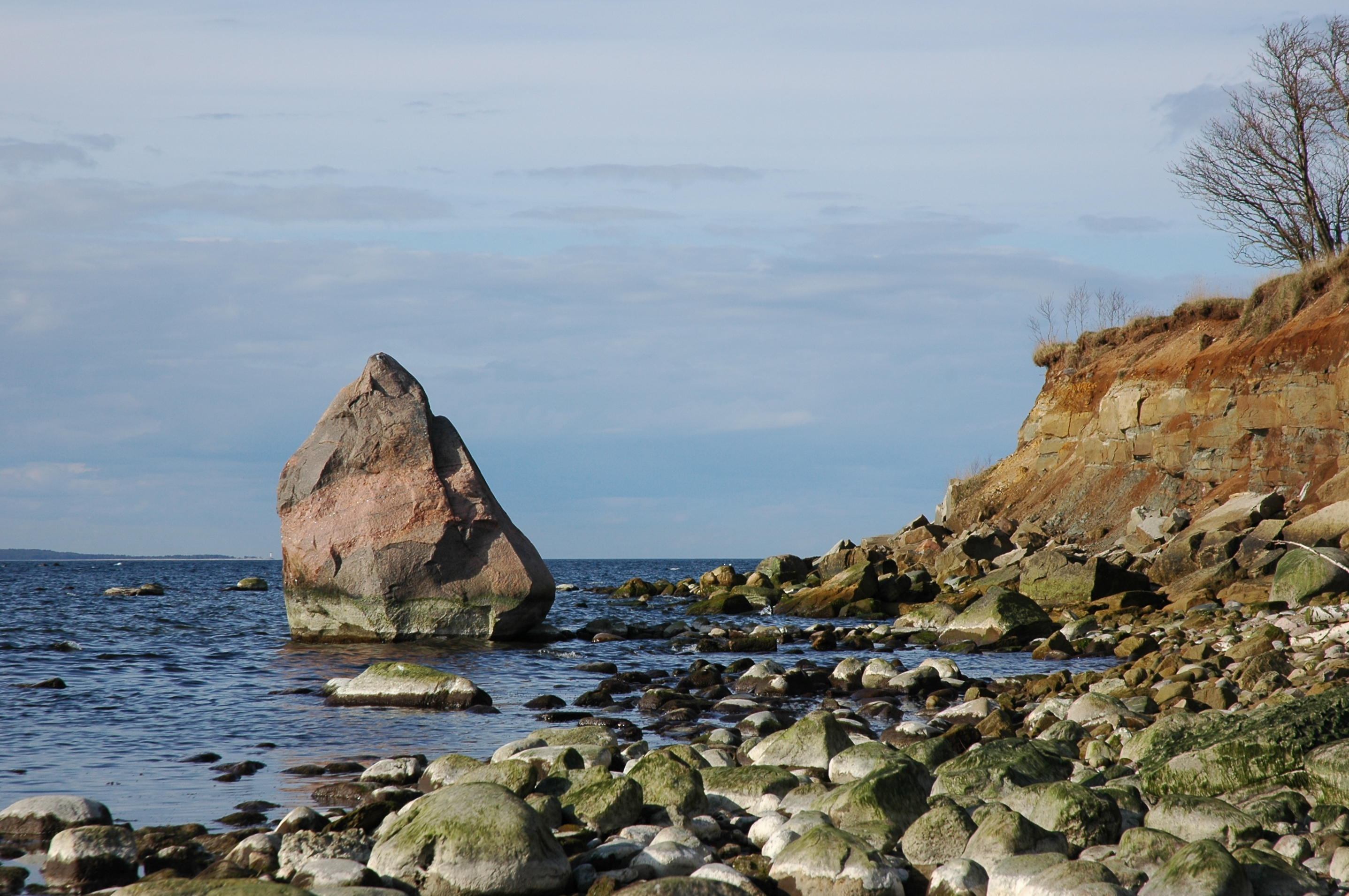 Mustkivi boulder in Tallinn, Estonia